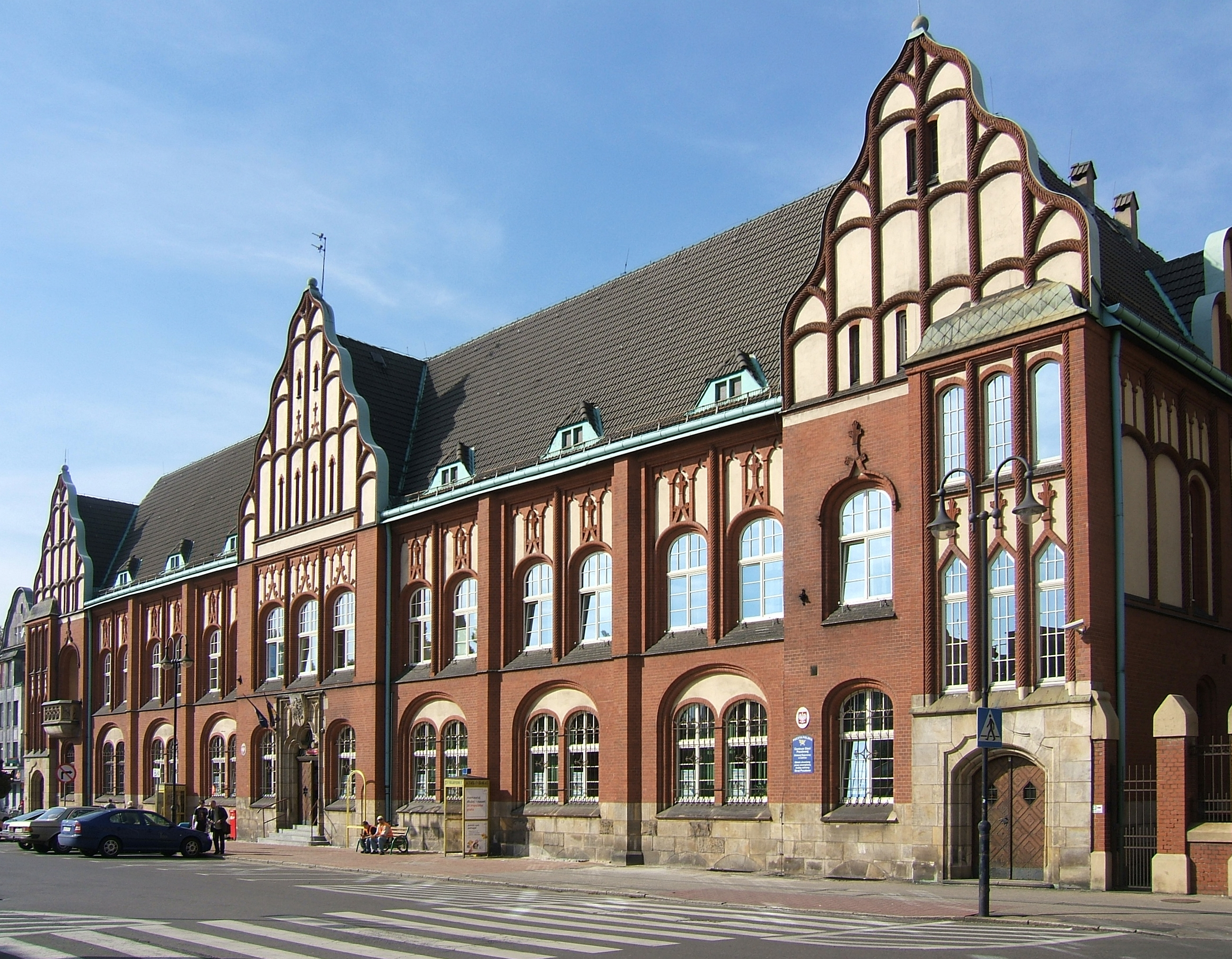 Main post office in Zabrze.